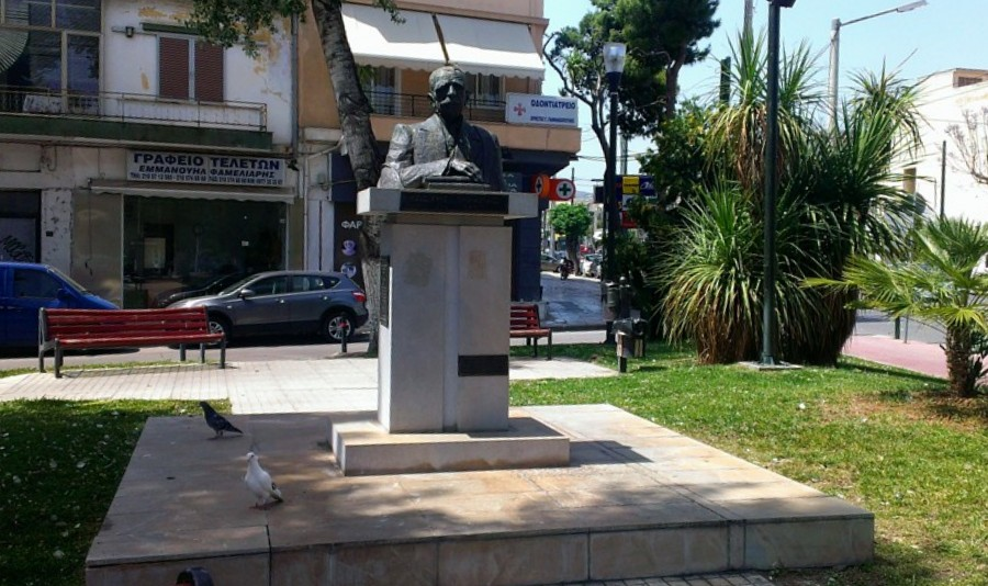 peristeri